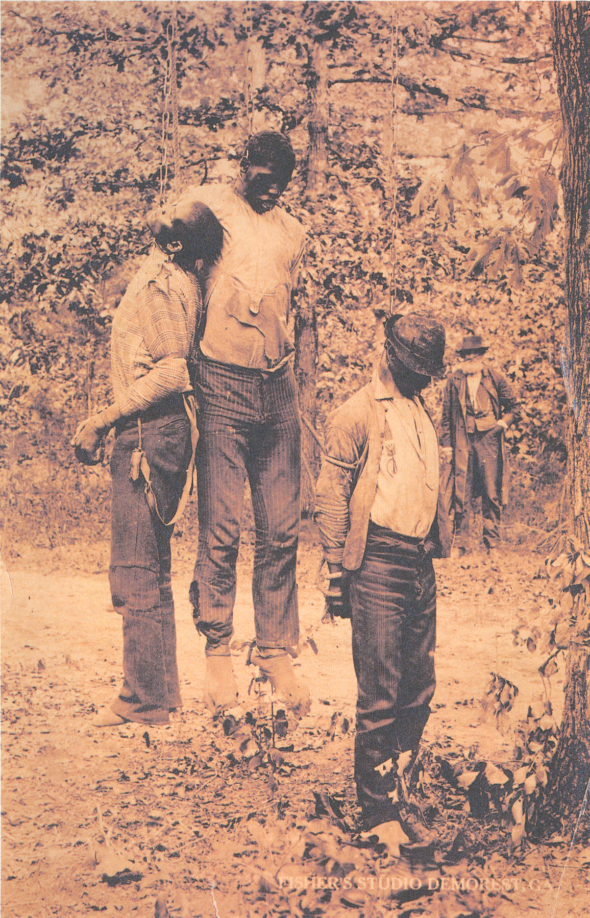 "The lynching of Jim Redmond, Gus Roberson, and Bob Addison, and one onlooker. May 17, 1892. Habersham County, Georgia. Gelatin silver paint. 4 3/4 x 6 3/4"." (Info quoted from p. 165.)